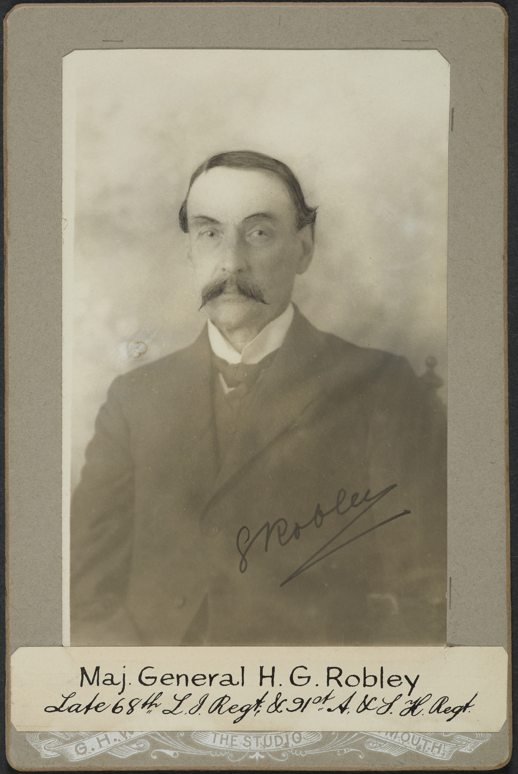 Major General H. G. Robley